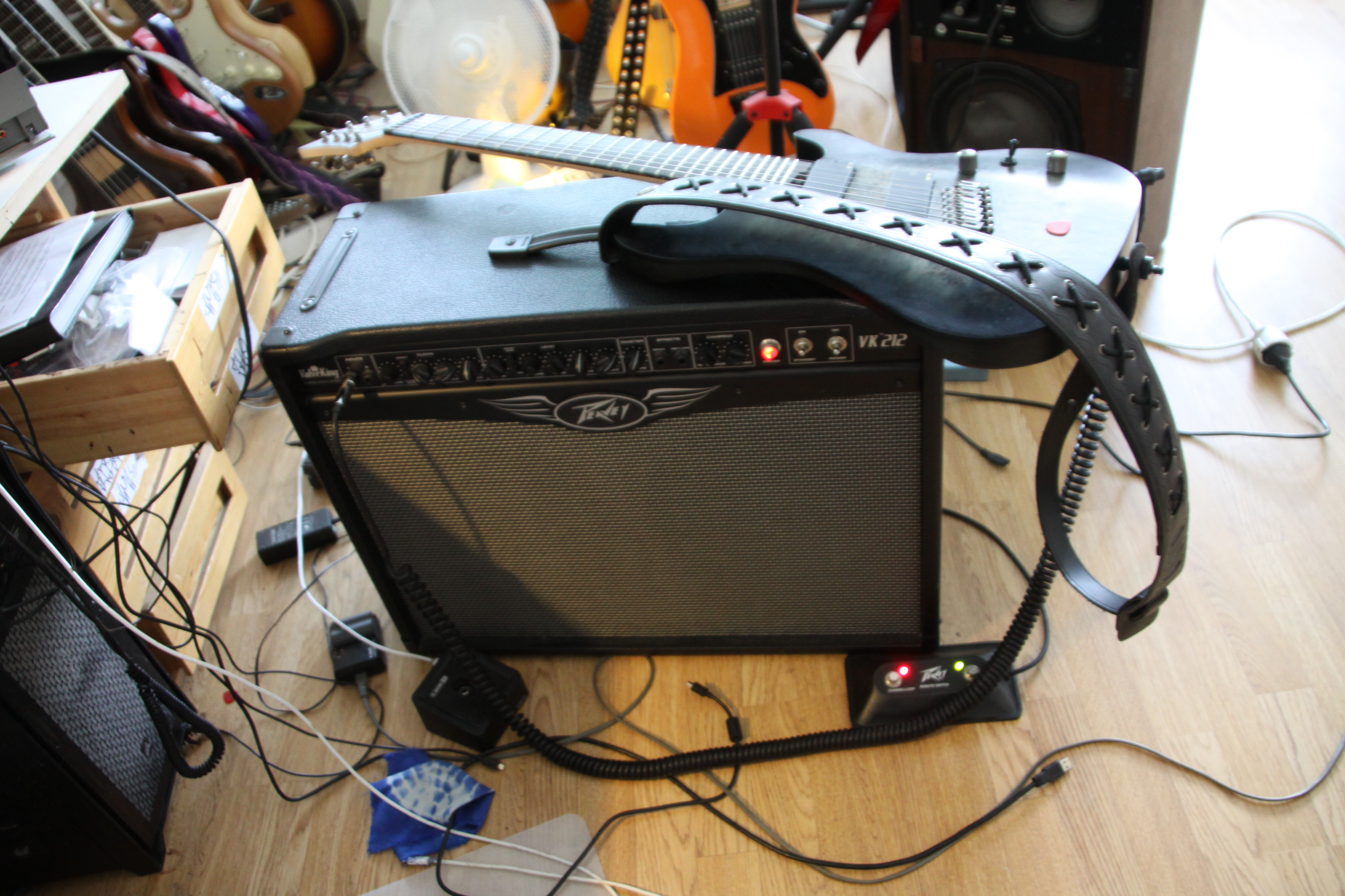 100W Peavey ValveKing tube-amp and a 7-string electric guitar.